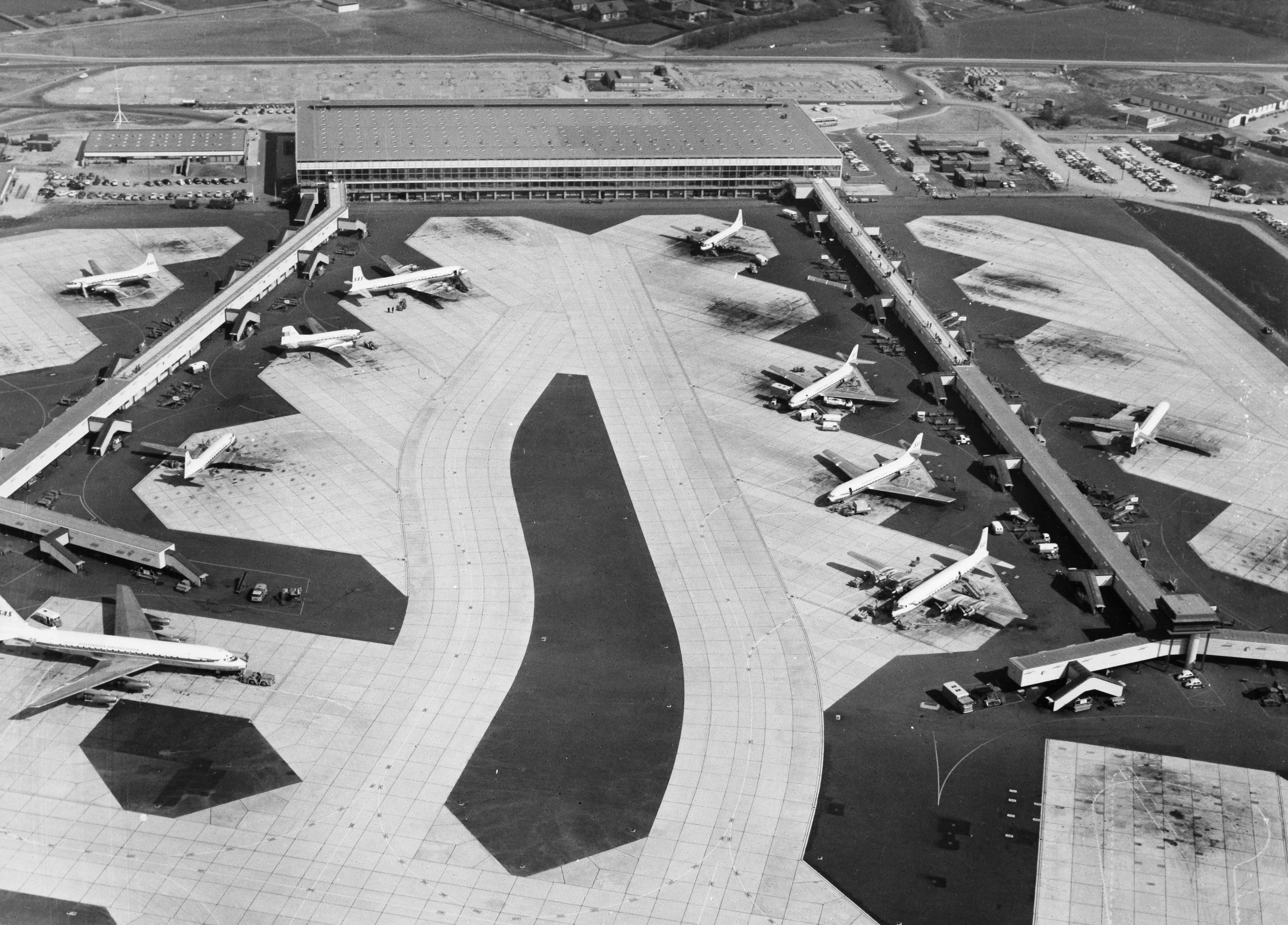 Kastrup Airport CPH, Copenhagen. Aerial view over the airport.